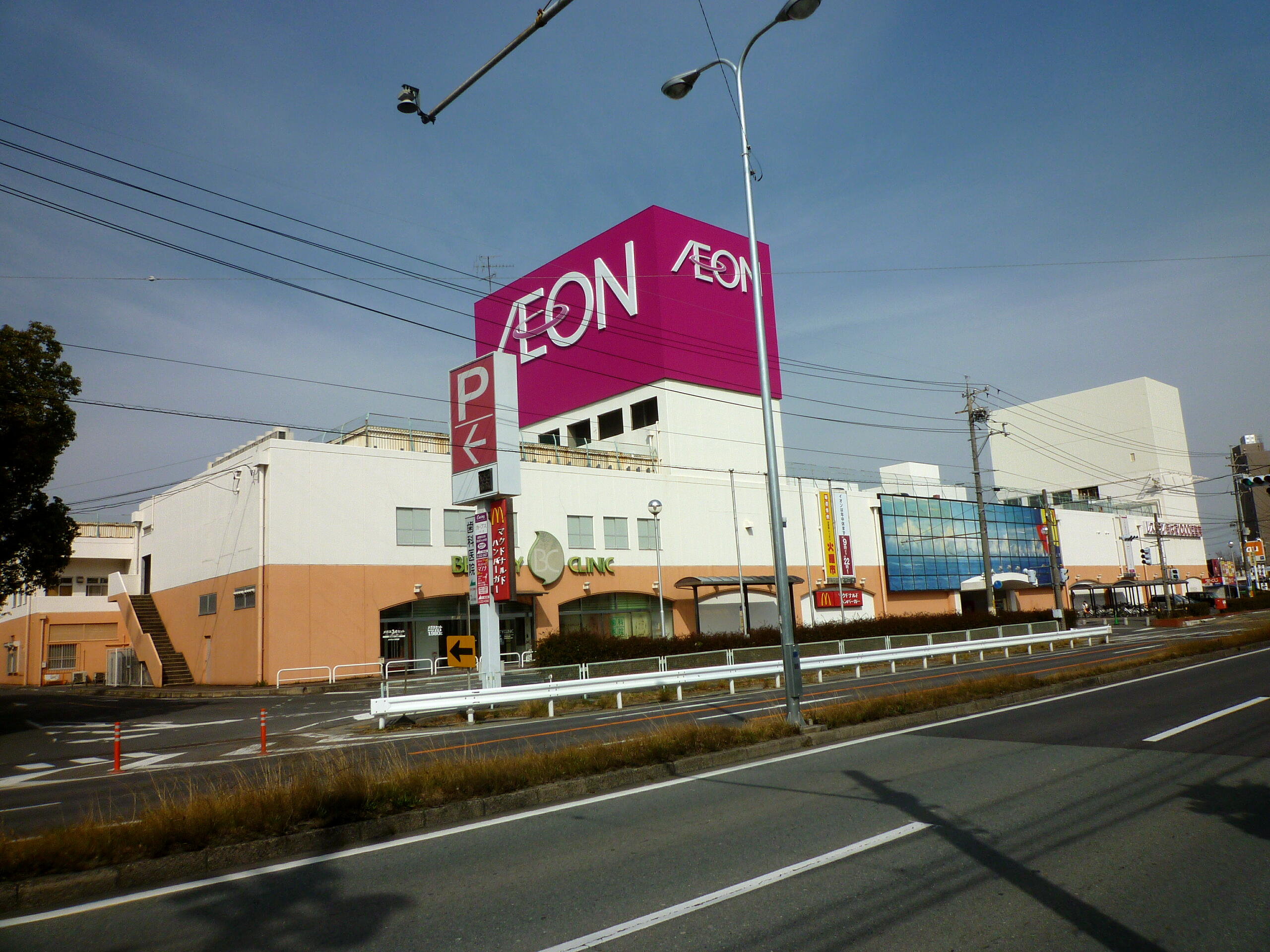 The "AEON Tsu" Shopping cennter in Sakurabashi, Tsu, Mie, Japan.